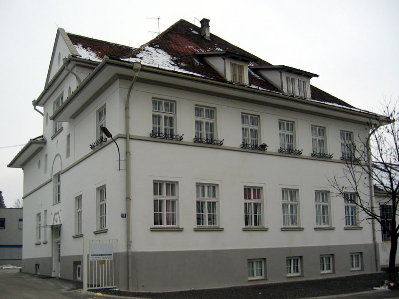 Former factory in Pinkafeld, Burgenland, Austria